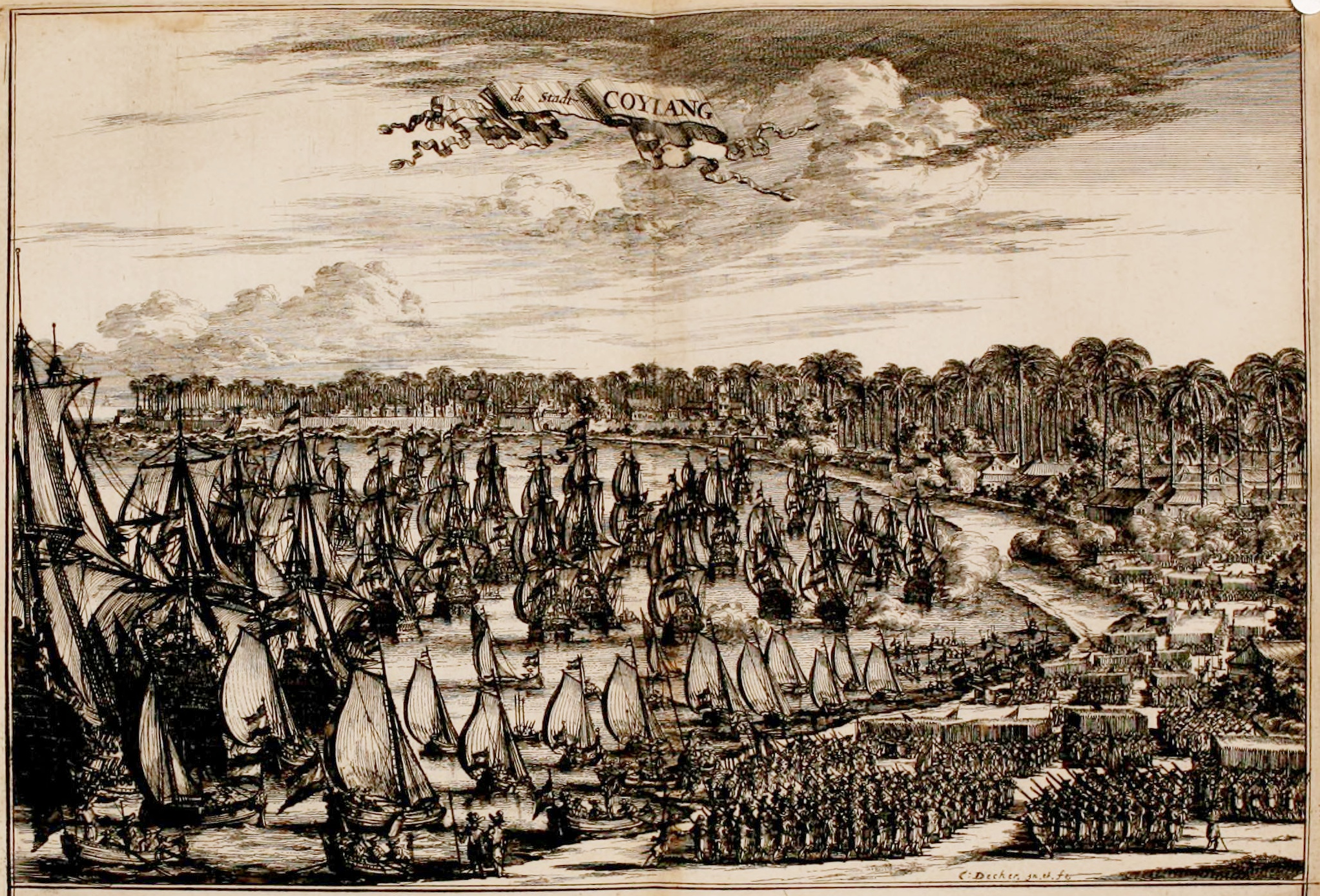 Attack on Kollam (Quilon), Kerala, Indien, in December 1661